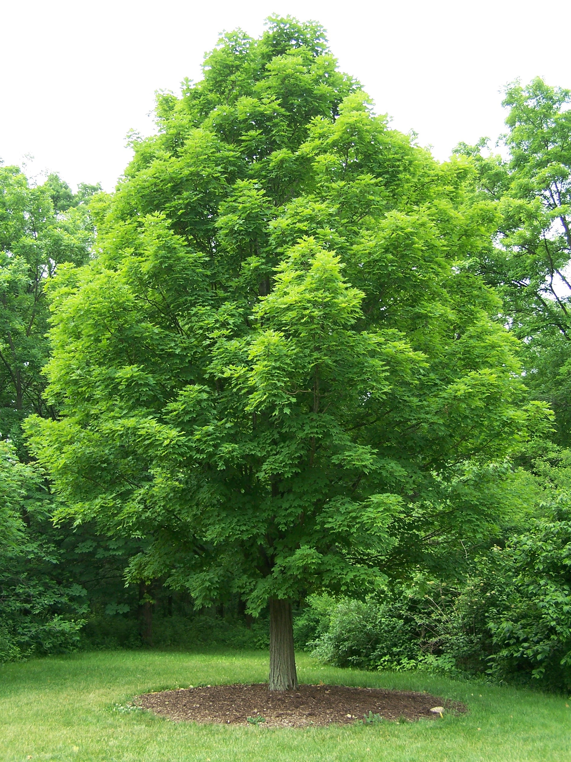 Sugar maple tree, Acer saccharum. Specimen at Morton Arboretum, Lisle, Illinois. Accession 258-78-1.